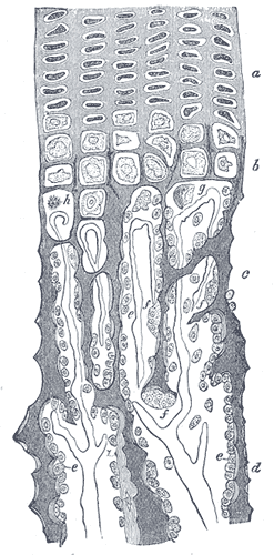 Part of a longitudinal section of the developing femur of a rabbit. a. Flattened cartilage cells. b. Enlarged cartilage cells. c, d. Newly formed bone. e. Osteoblasts. f. Giant cells or osteoclasts. g, h. Shrunken cartilage cells. (From â€œAtlas of Histology,â€ Klein and Noble Smith.)